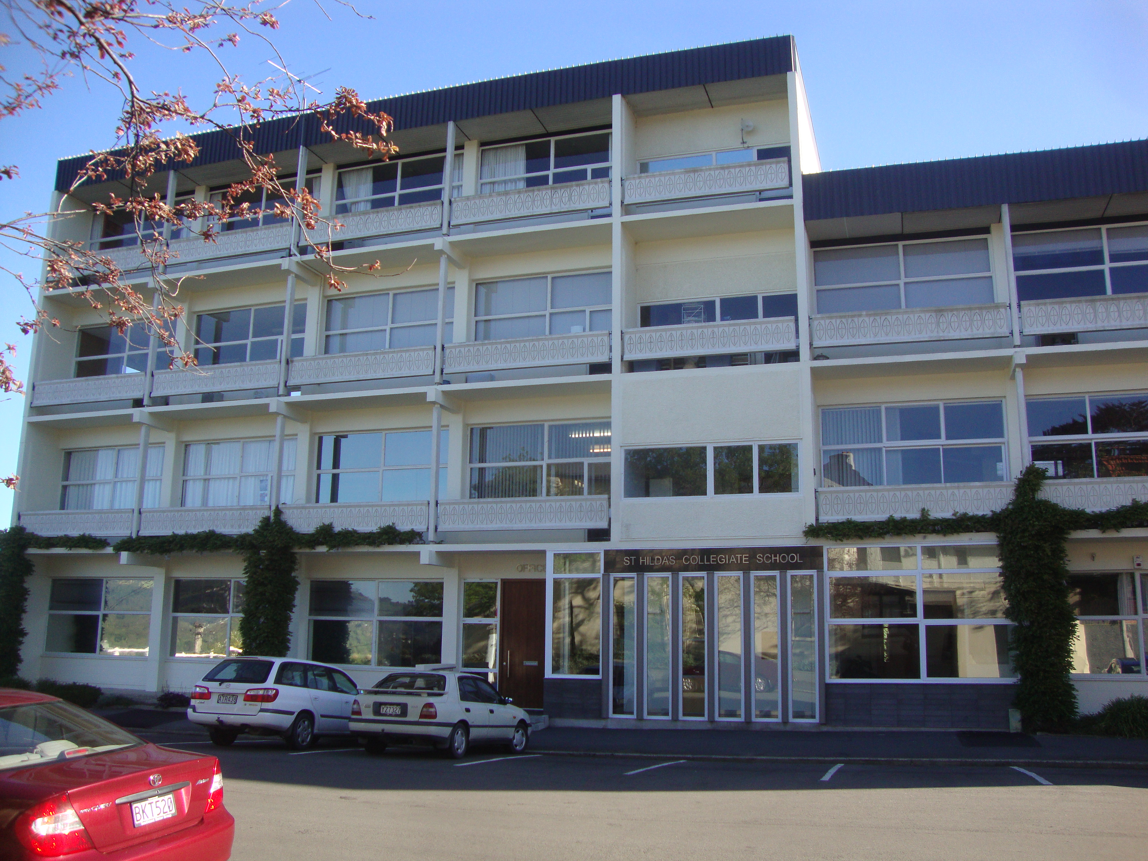 Somewhere in Dunedin.